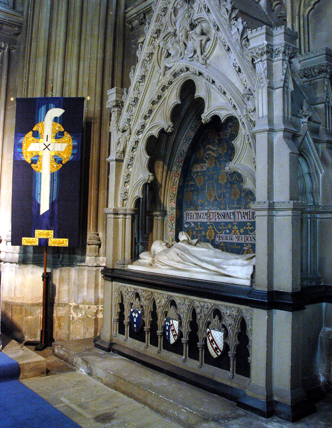 Grave of Edward White Benson, Archbishop of Canterbury at Canterbury Cathedral